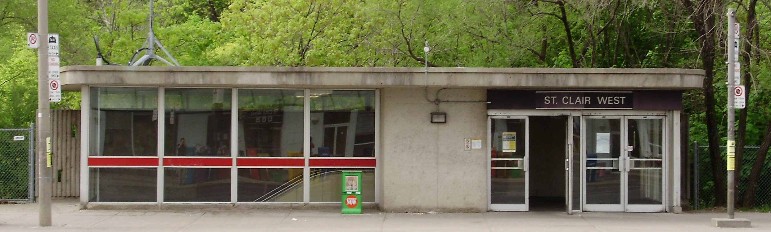 The Toronto Transit Commission's St. Clair West station in Toronto, Canada, photographed from the north side of St. Clair Avenue.